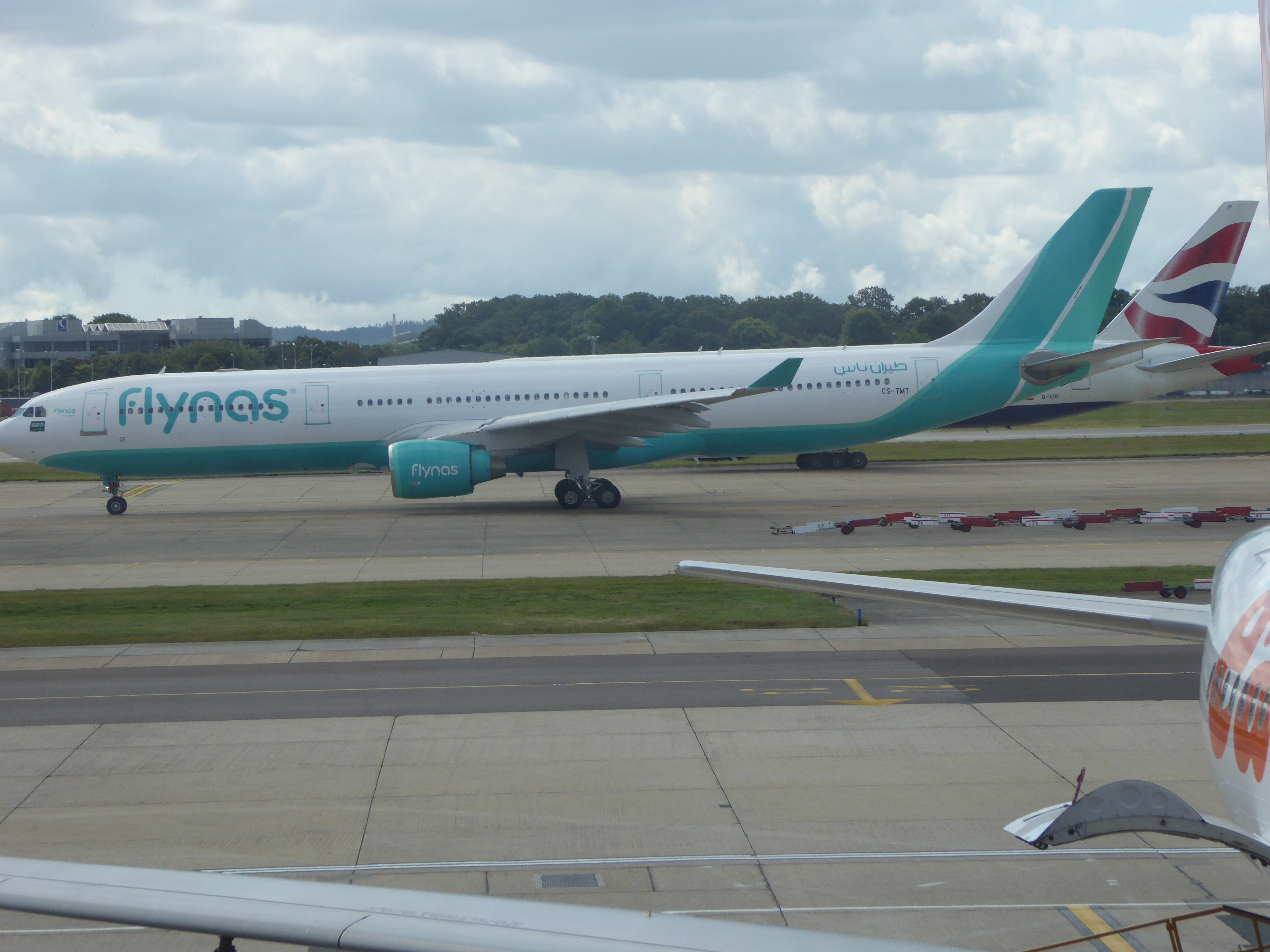 Flynas (CS-TMT) Airbus A330-300, London Gatwick Airport, England, July 2014